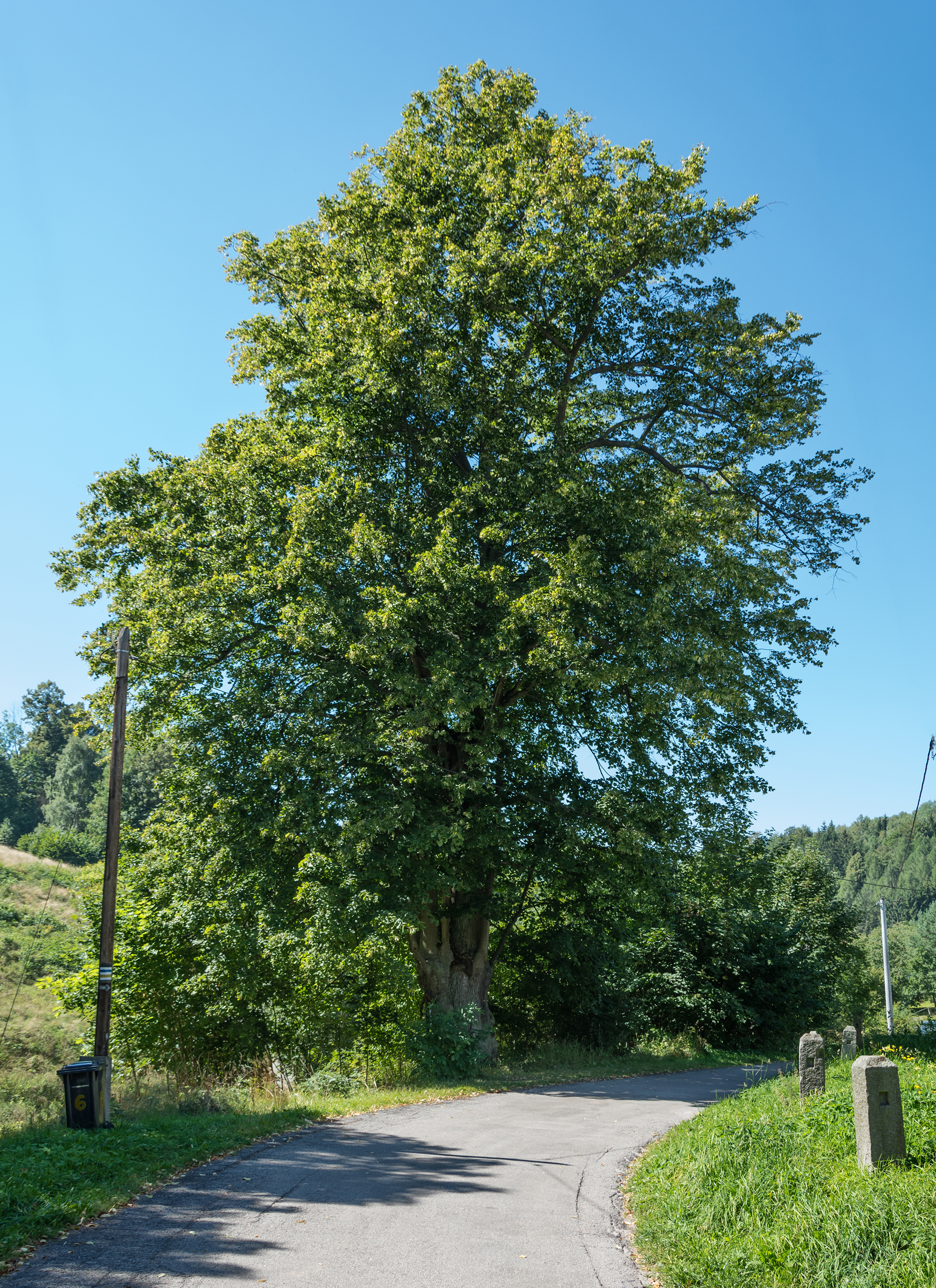 Large-leaved linden (Tilia platyphyllos) in Pstrążna, natural monument